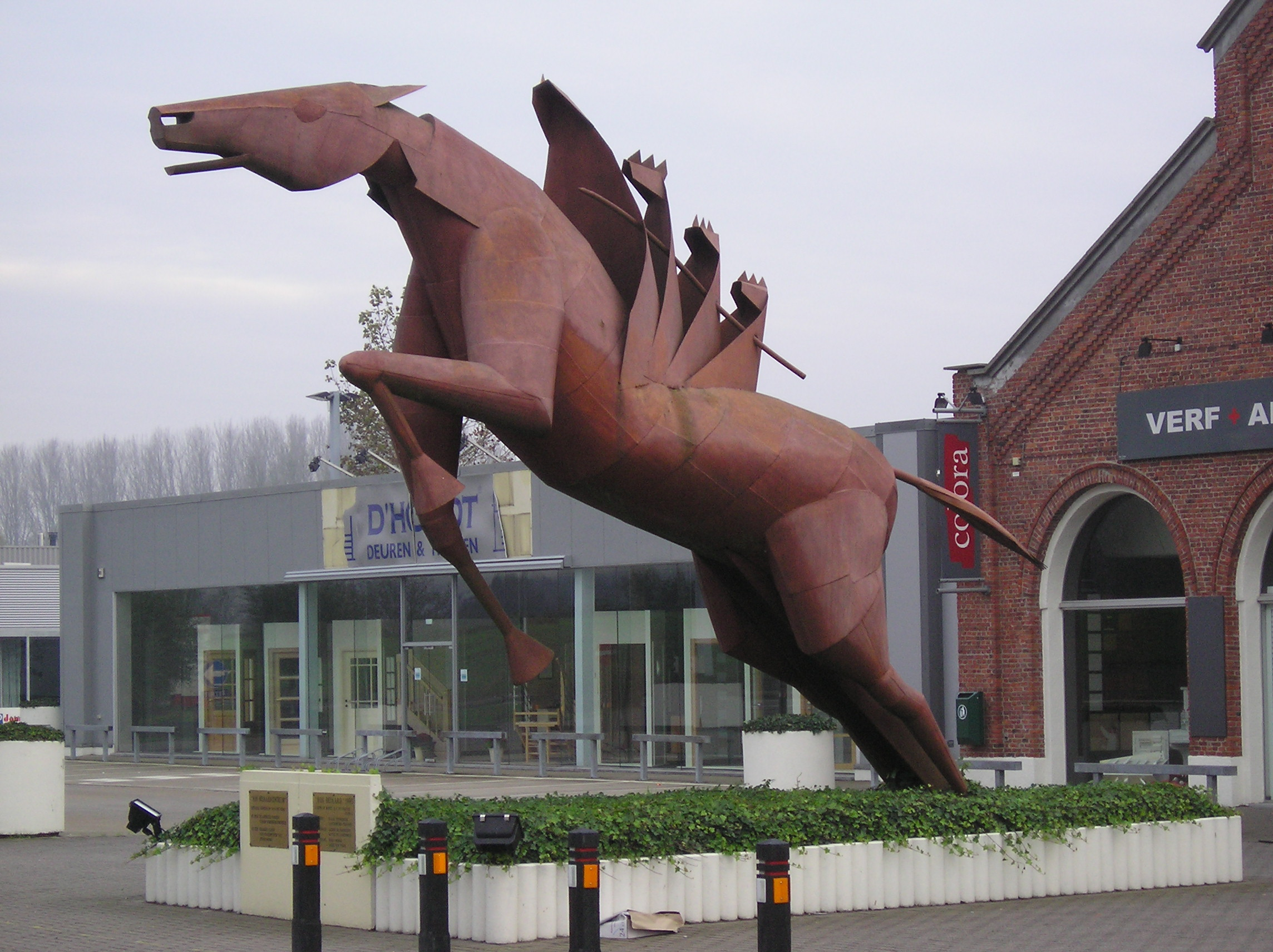 Ros Beiaard in Grembergen village, part of Dendermonde munitipality.